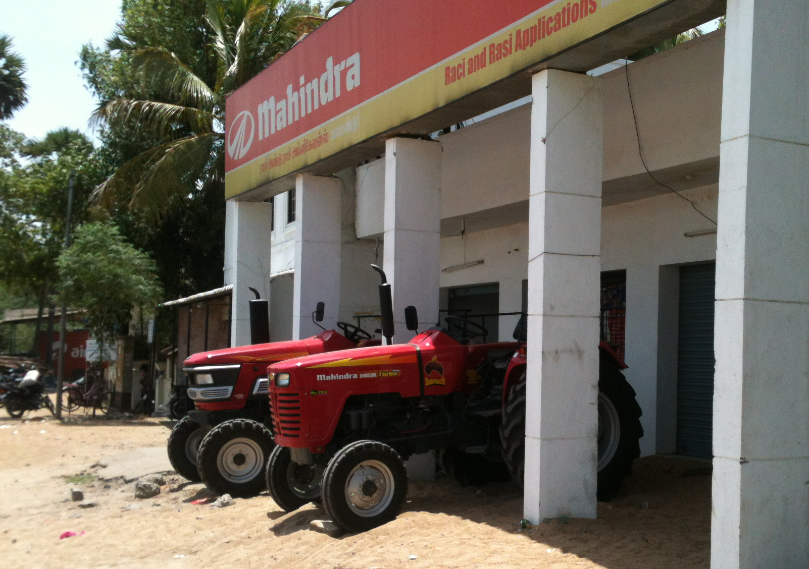 Mahindra Tractors at a Showroom in 2012 near Chengalpattu in Tamil Nadu